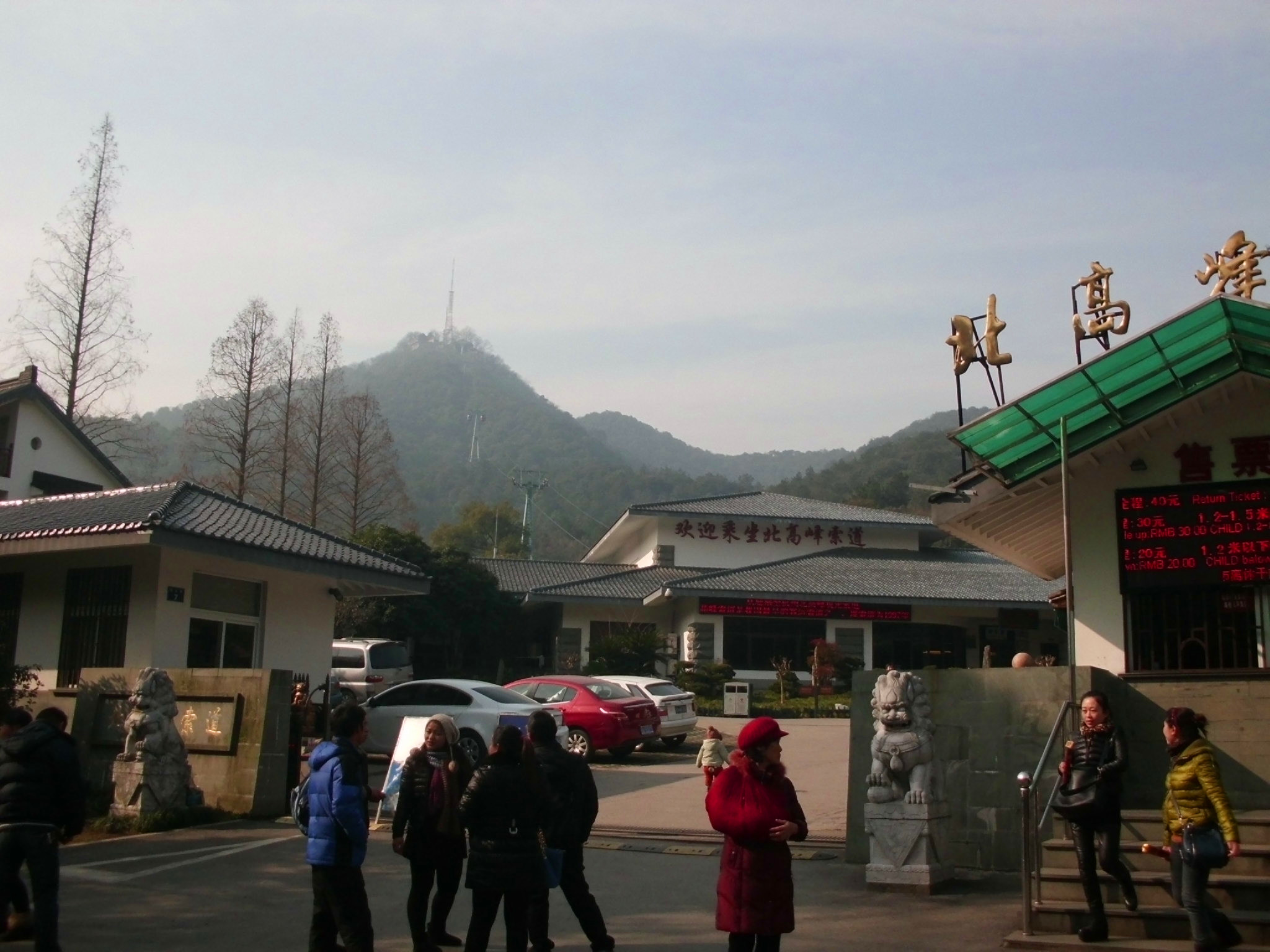 Lingyin Temple